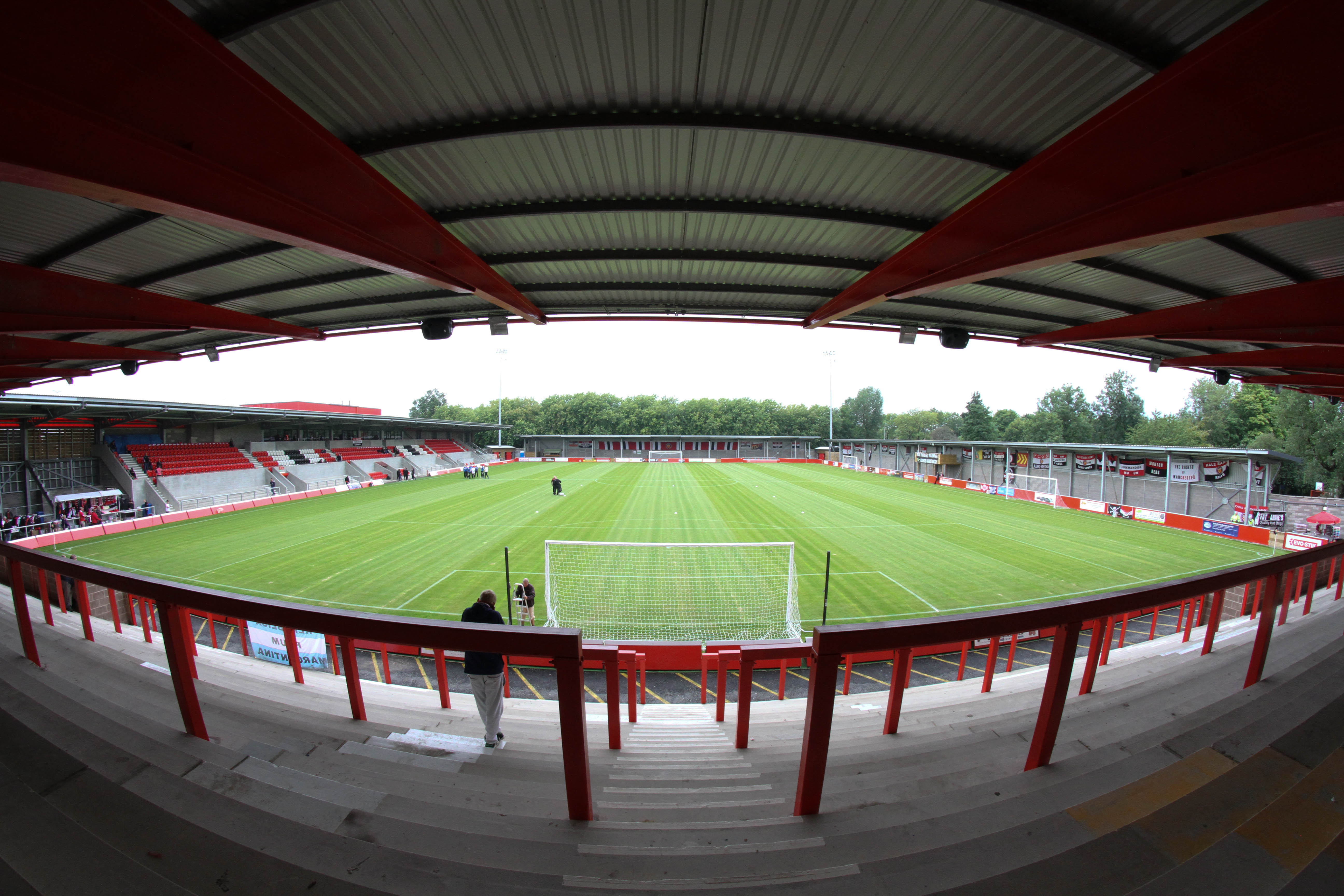 Broadhurst Park as viewed from the St Mary's Road End, photographed shortly before a Vanarama National League North match between F.C. United of Manchester and Curzon Ashton on 31 August 2015.